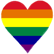 A heart with the stripes of the rainbow flag across it.